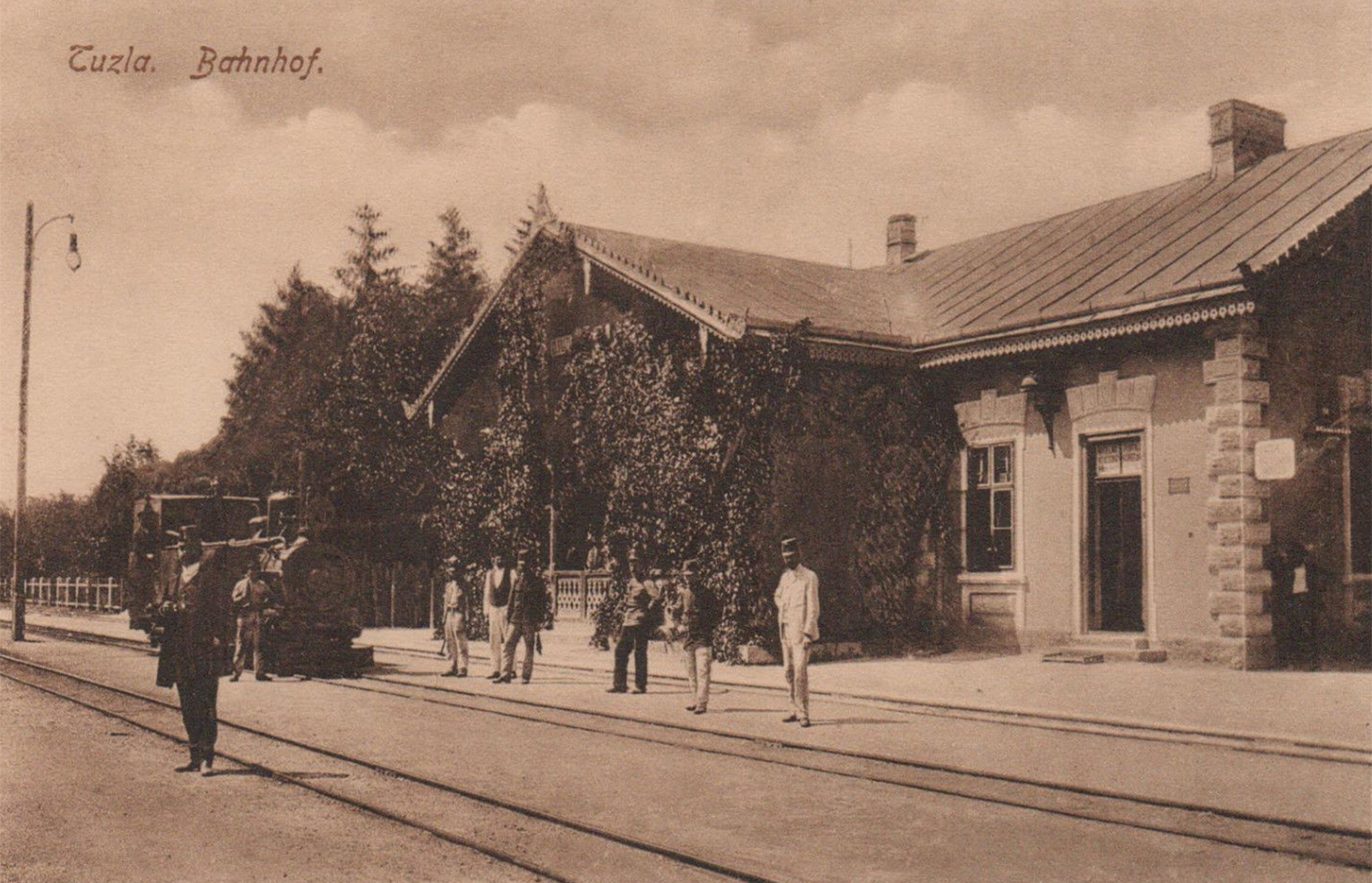 Narrow-gauge railway station in Tuzla